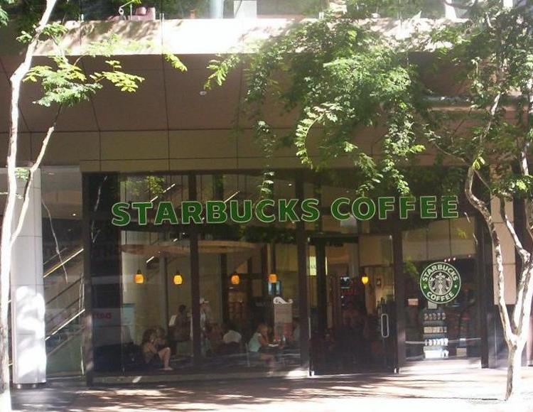 Starbucks in Brisbane by: Figaro